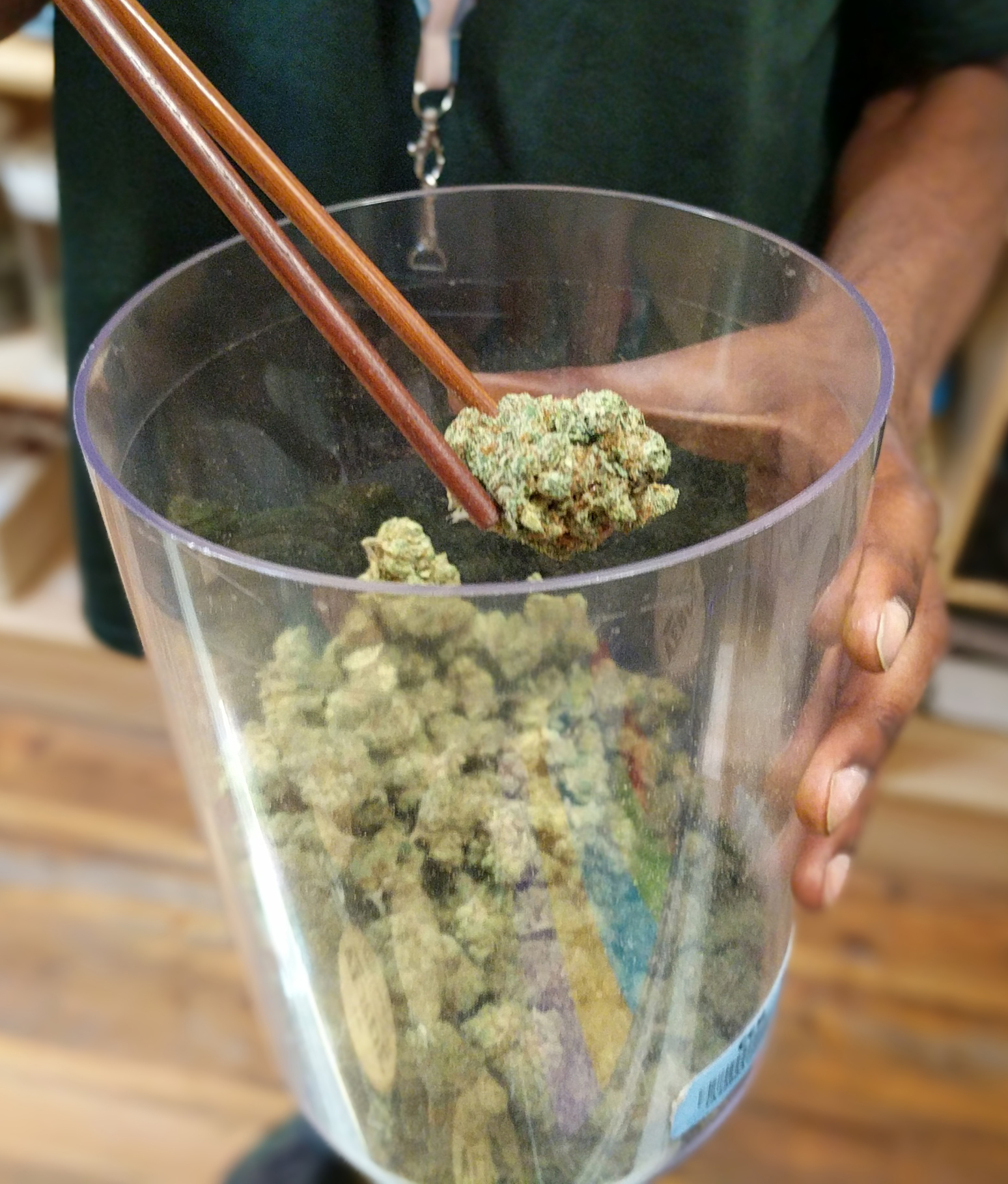 This was taken inside Verde Natural, a recreational dispensary in Denver, Colorado. Recreational weed was legalized in Colorado in November 2012.